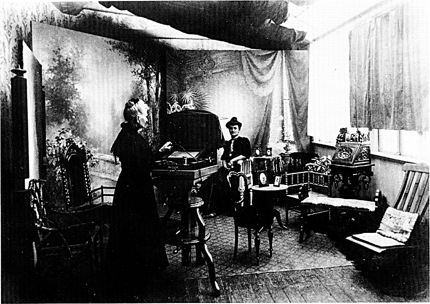 Frederikke Federspiel, early Danish photographer, in her Reform studio in Aalborg, Denmark, with a client. Carte-de-visite photograph.